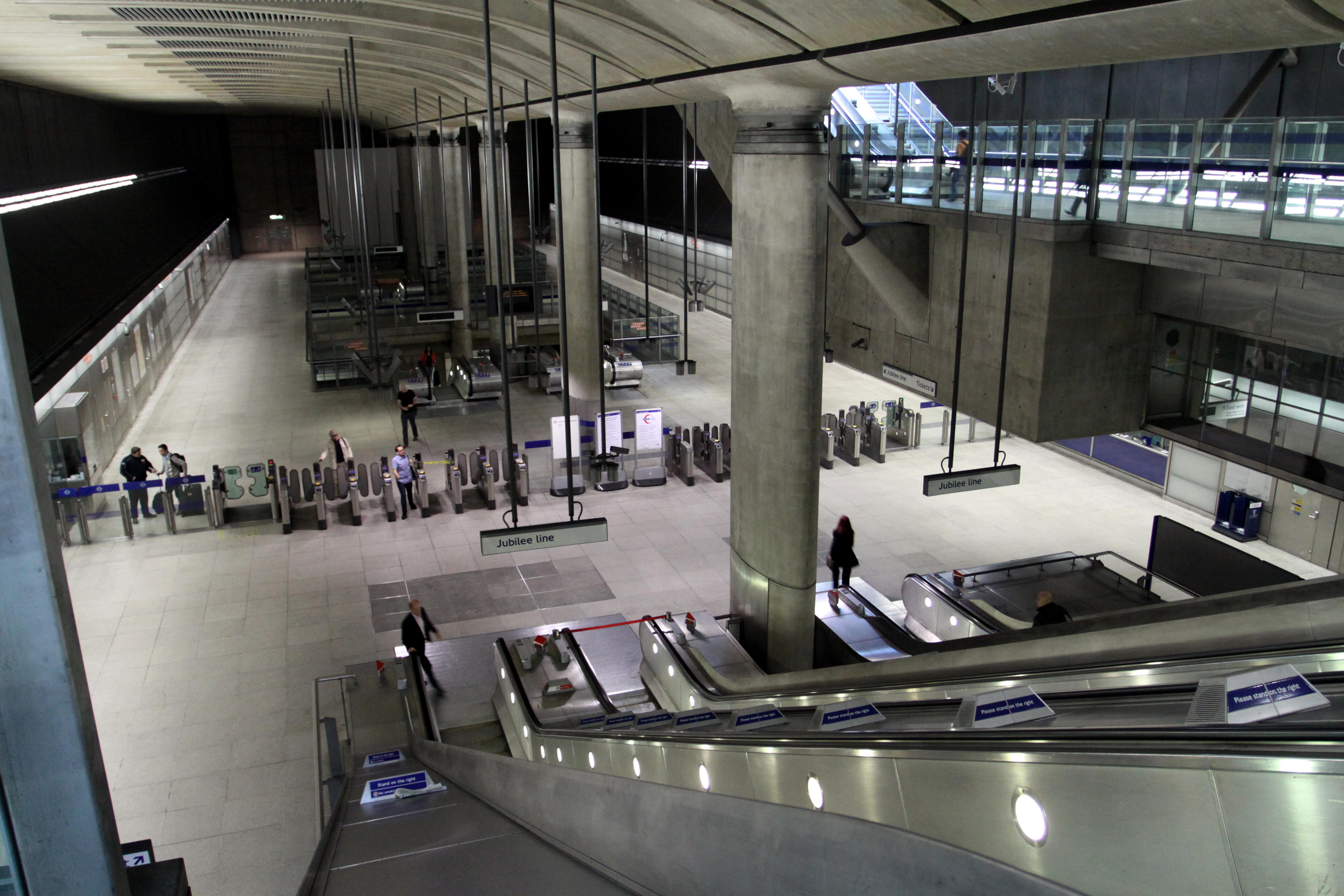 Canary Wharf tube station is a London Underground station on the Jubilee Line, between Canada Water and North Greenwich, London, England, Great Britain The making of this file was supported by Wikimedia UK.